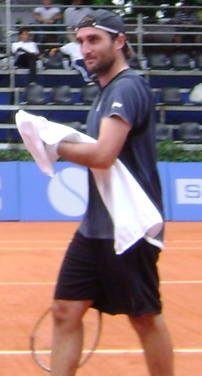 Santiago Ventura, tennis player from Spain, at São Paulo Challenger